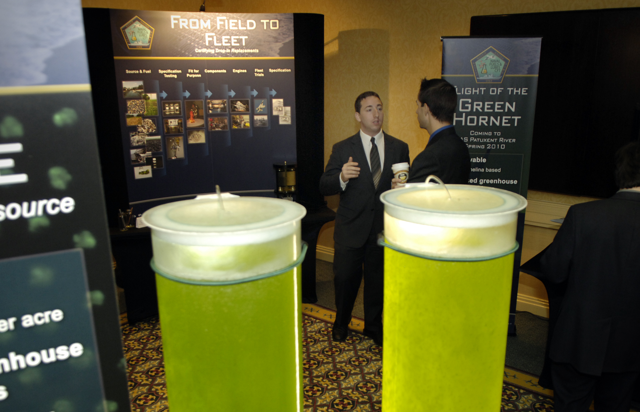 MCLEAN, Va. (Oct. 15, 2009) John Bigus, left, a fuels engineer assigned to Naval Air Warfare Center-Aircraft Division in Patuxent River, Md., explains the greening of Navy Fuels at the first Naval Energy Forum hosted by the Office of Naval Research and Task Force Energy. Bigus stands in front of a display of camelina and algae fuels and processes for the production of renewable fuels to be tested in Navy ship and aircraft. (U.S. Navy photo by John F. Williams/Released)